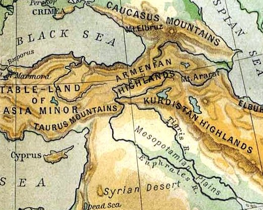 Physical map of Near East